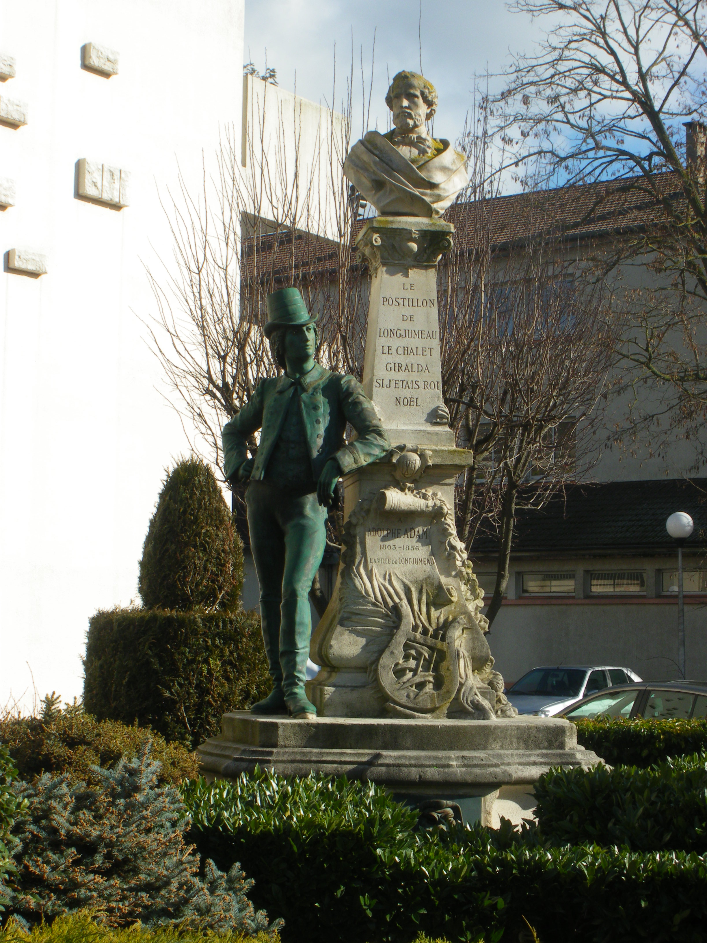 Paul Fournier (1859-1926), Monument to Adolphe Adam, 1897, bronze, Longjumeau (France). The statue of the the Coachman of Longjumeau refers to the opera of Adolphe Adam.